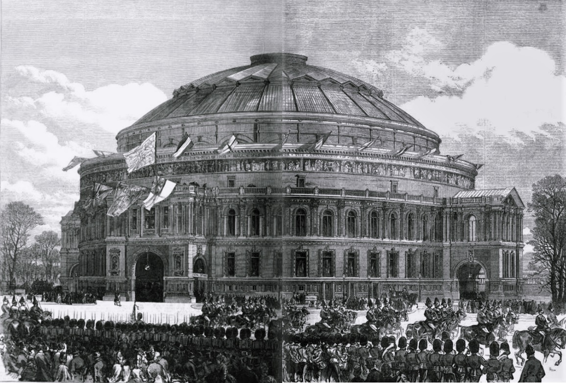 The grand opening of the Royal Albert Hall in London, was conducted by Prince Albert's widow and eldest son, Queen Victoria and the Prince of Wales on 29 March 1871.